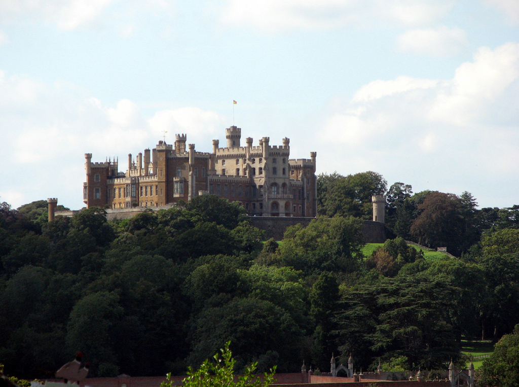 Belvoir Castle seen from Woolsthorpe by Belvoir A mile away as the crow flies, and seen through a zoom lens from the main street in Woolsthorpe.